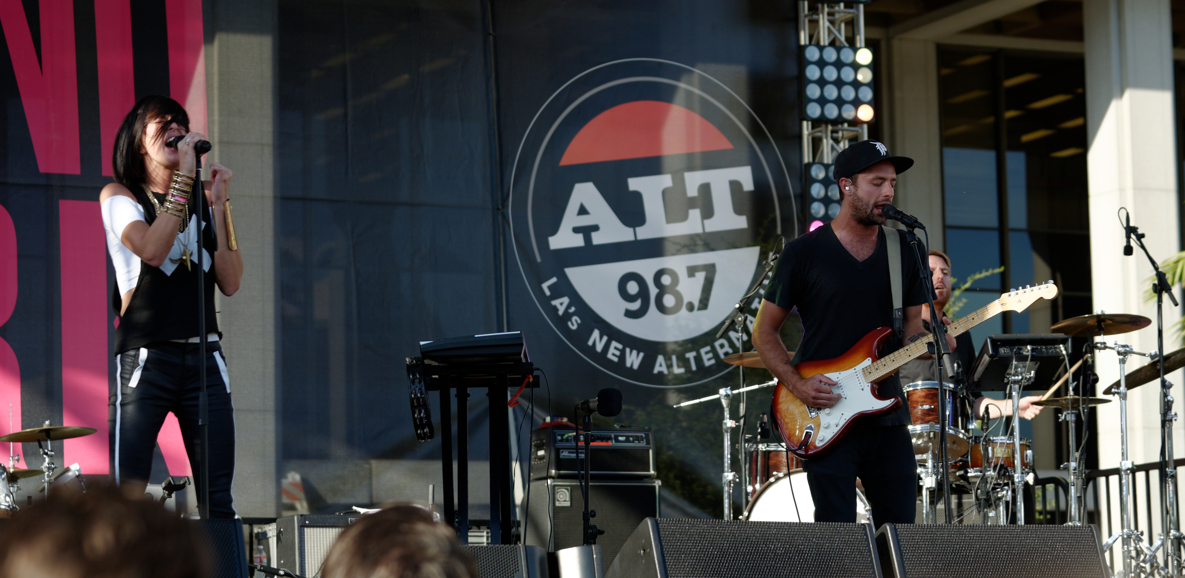 Phantogram performing live at Grand Park in downtown Los Angeles California on Friday July 4th, 2014. Part of the 2014 ALTimate 4th of July Block Party presented by Grand Park and L.A. radio station ALT 98.7 FM.